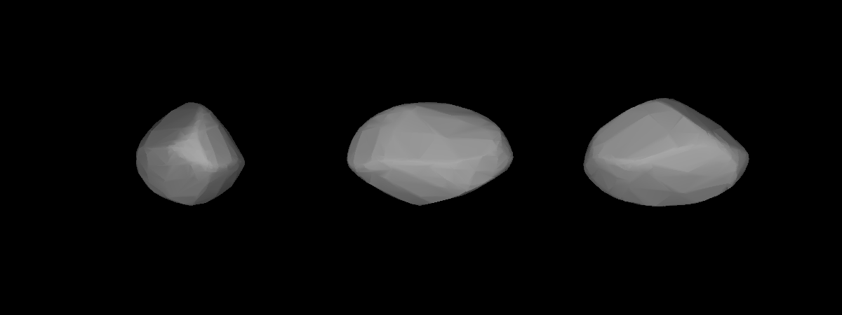 A three-dimensional model of 631 Philippina that was computed using light curve inversion techniques.